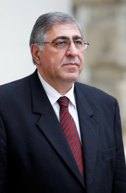 Ambassador Extraordinary and Plenipotentiary of the Republic of Armenia to Austria, Permanent Representative of the Republic of Armenia to the OSCE